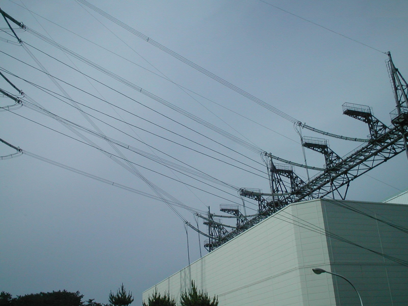 Transformer building terminating power lines from the 500 kV Futaba power transmission line behind reactors 5 and 6 at the Fukushima I nuclear power plant in Japan. These lines remained energized throughout the entire earthquake and tsunami incident of March 2011. This photo was taken on June 23, 1999 during a plant tour.